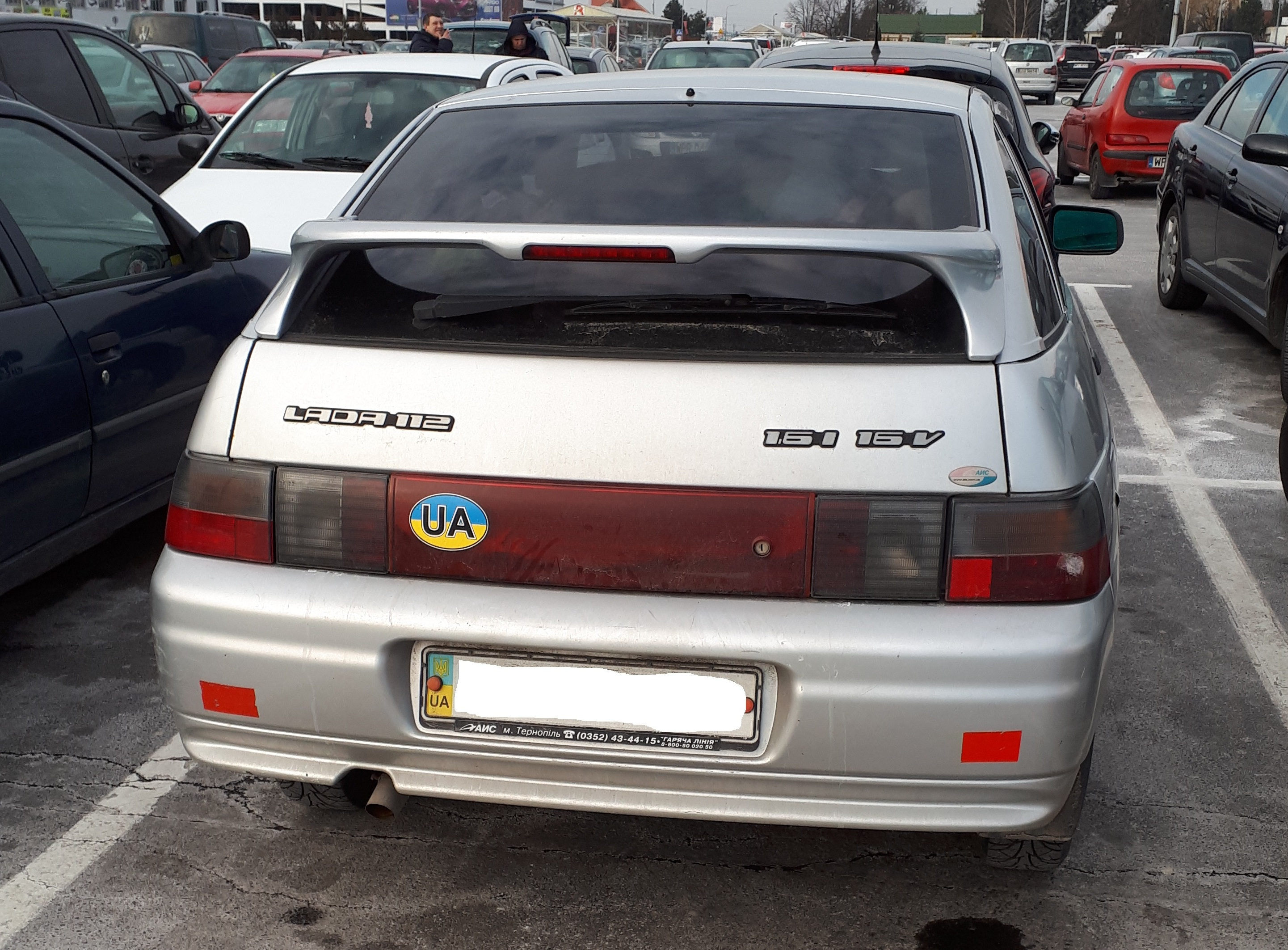 Lada 112 in Piaseczno